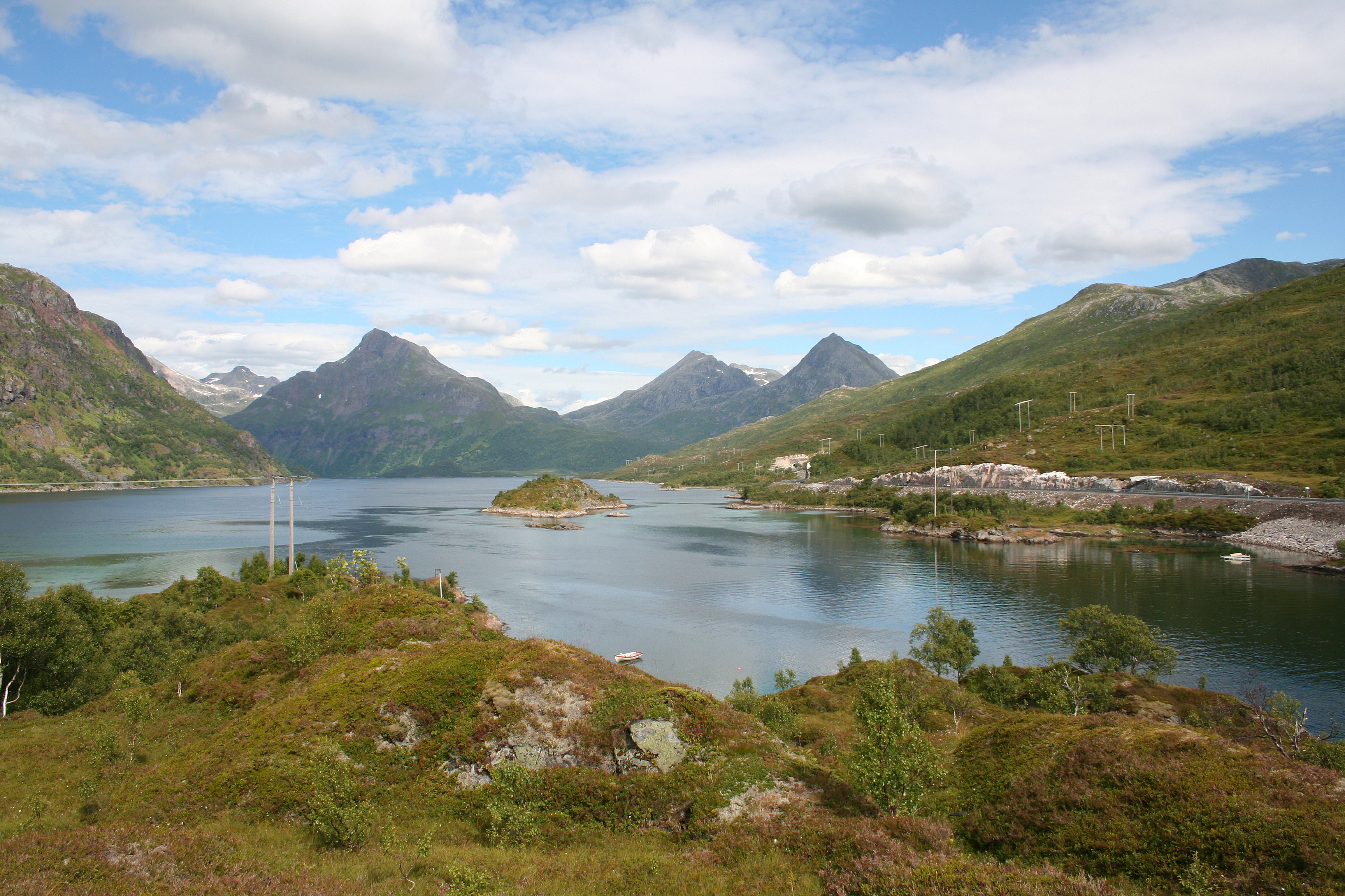 Innerfjorden, the inner part of Øksfjorden in Lødingen, Norway, seen from the small island Husjordøya in the middle of the fjord. Road E10 is visible on the right.